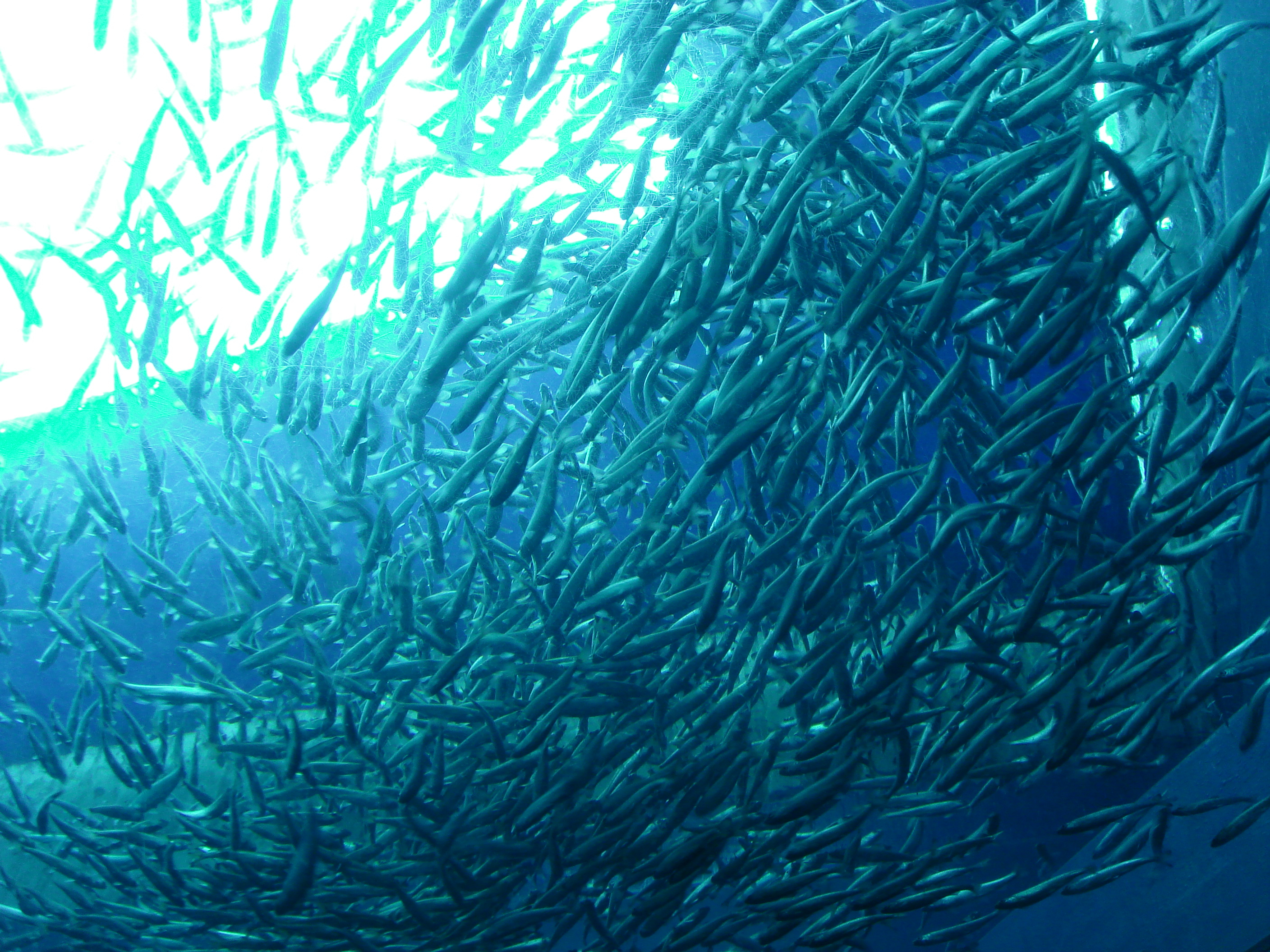 school of fish Seattle Aquarium